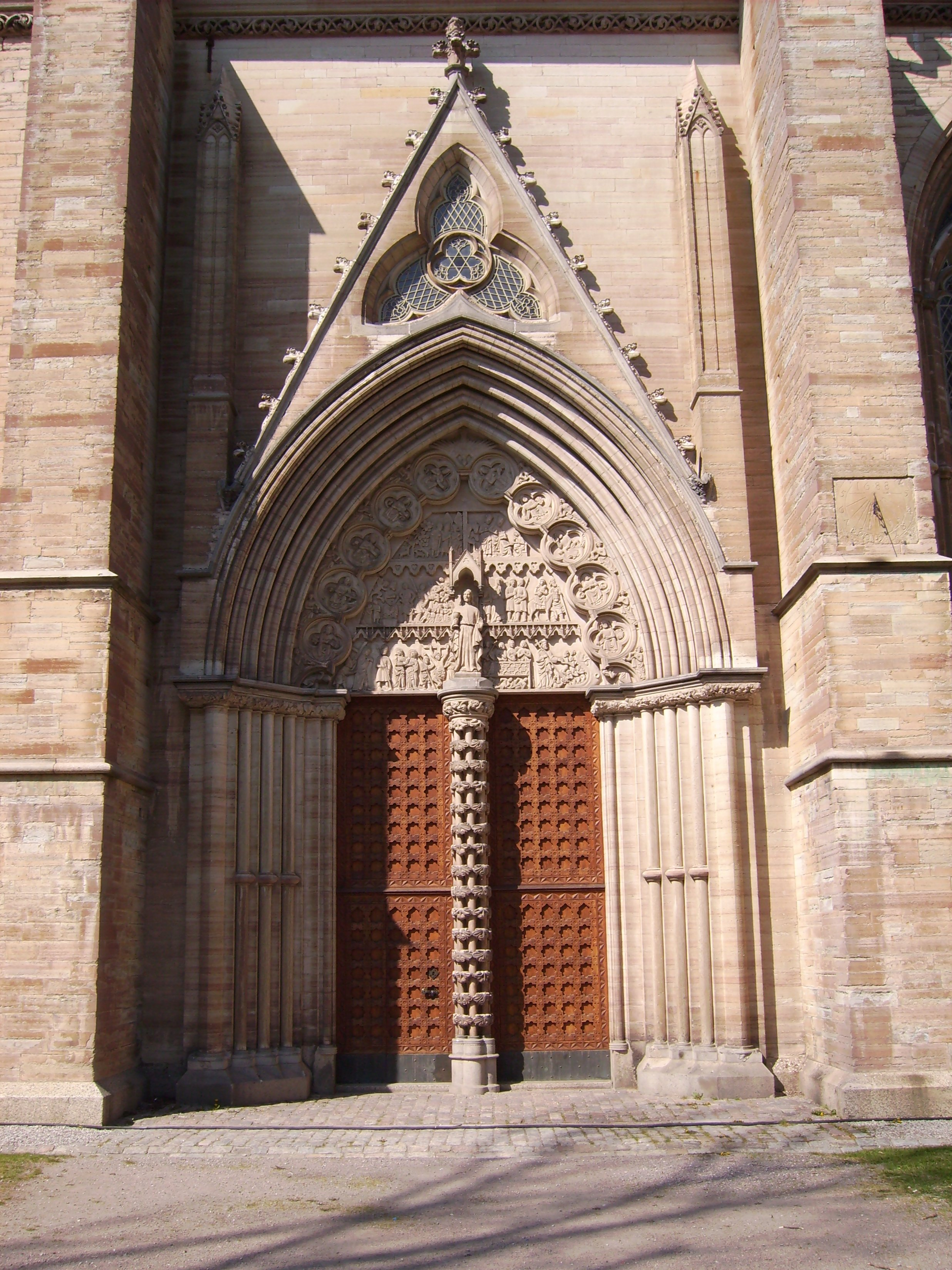 Photo by Harri Blomberg.